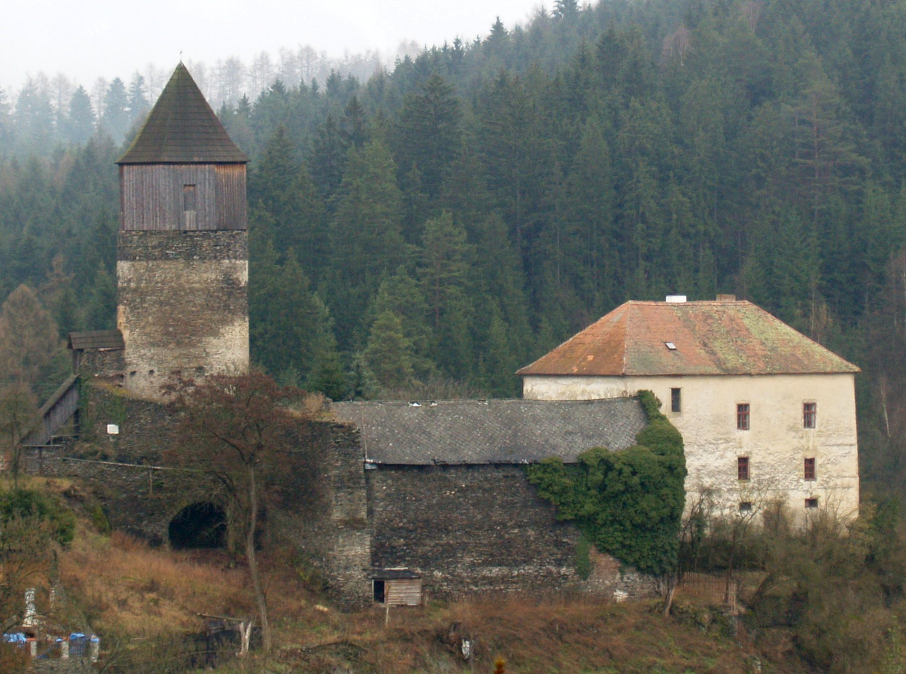 Pirkstejn Castle, Rataje nad Sazavou, Czech Republic